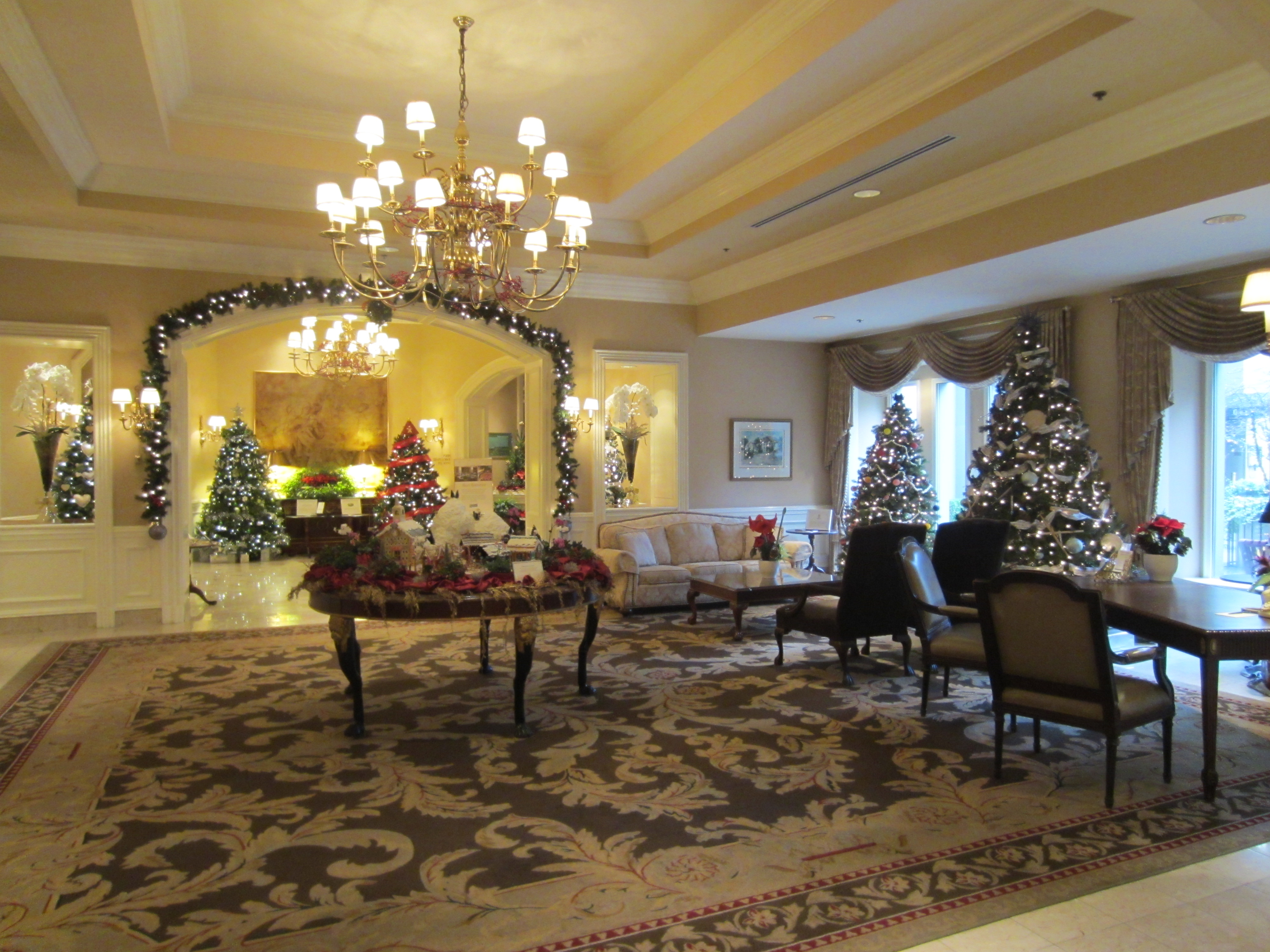 Sutton Place Hotel, Vancouver, British Columbia (2012)